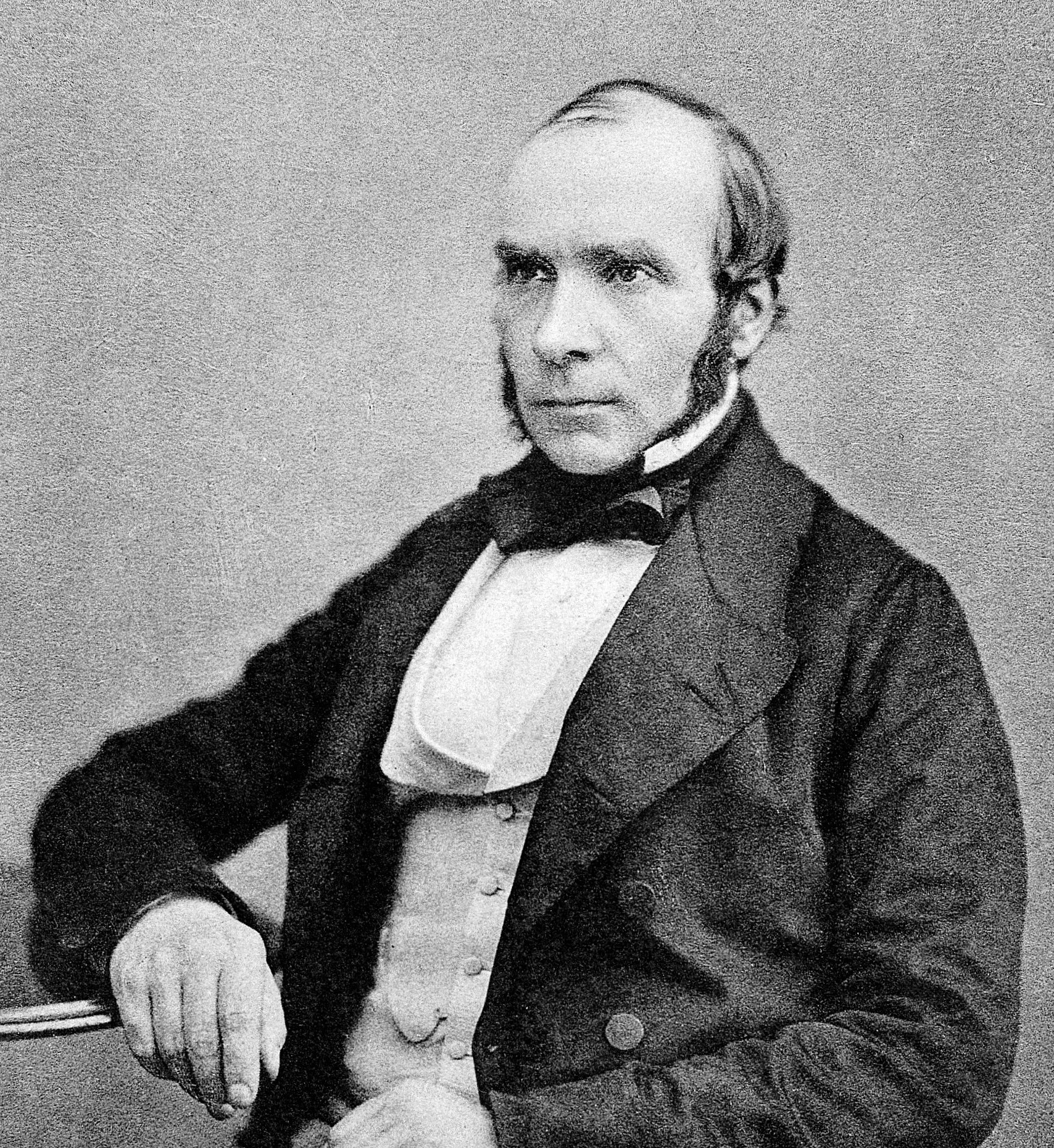 Dr. John Snow (1813-1858), British physician.